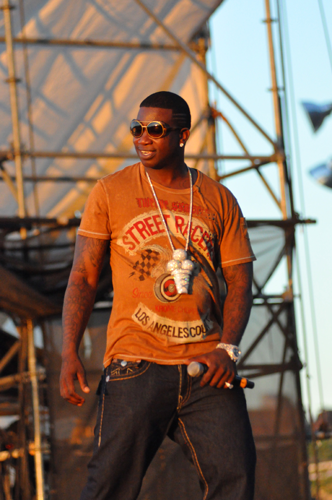 Gucci Mane at the Williamsburg Waterfront, Williamsburg, Brooklyn, August 29, 2010